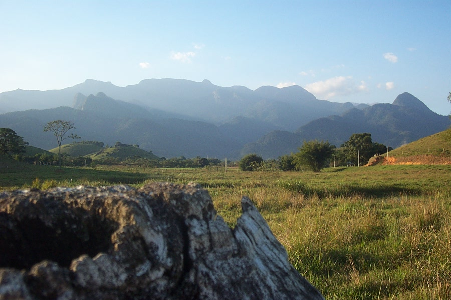 Landscape of Rio de Janeiro state near Magé and the Guarani river.